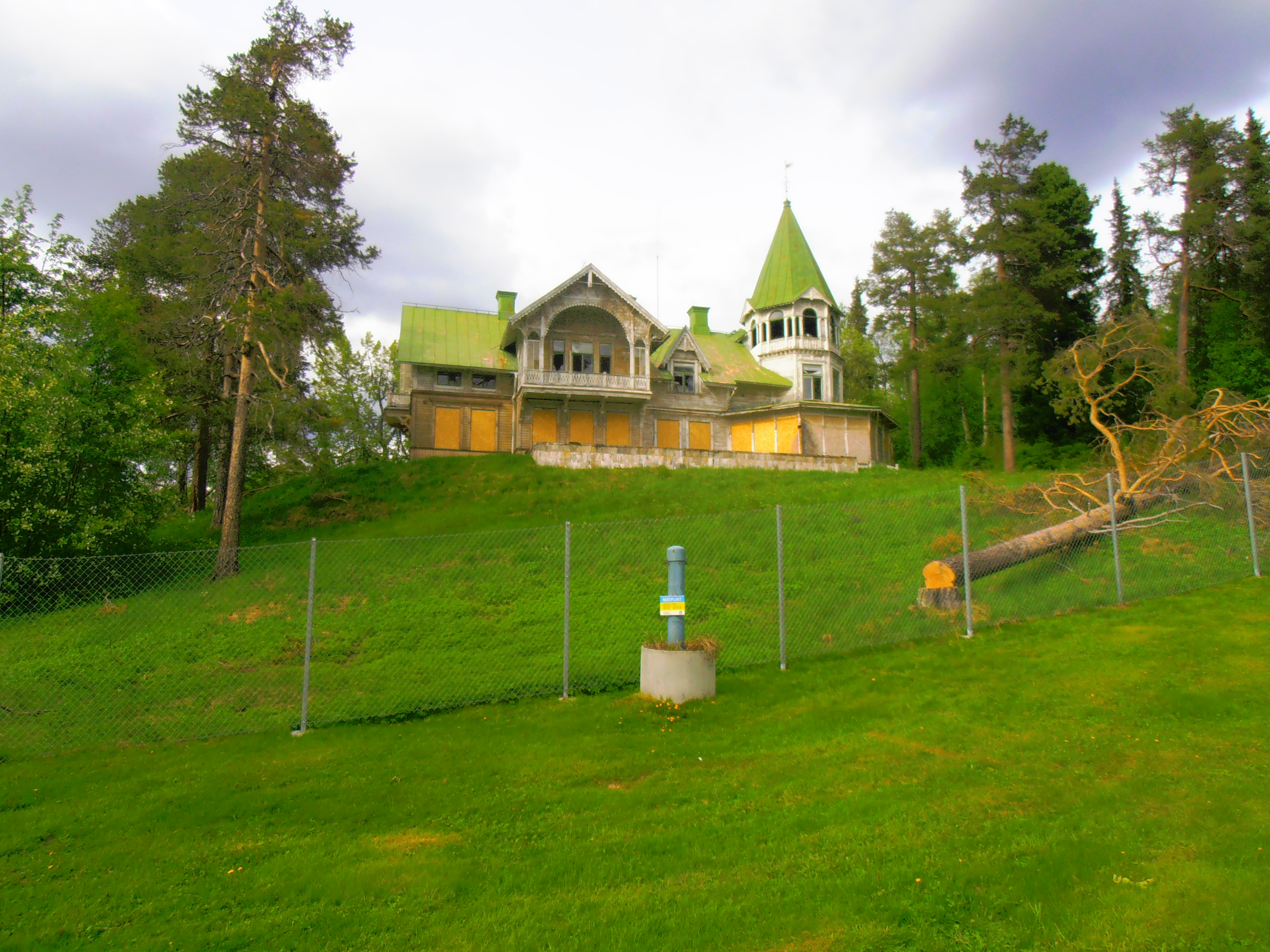 The Manager's House, Malmberget